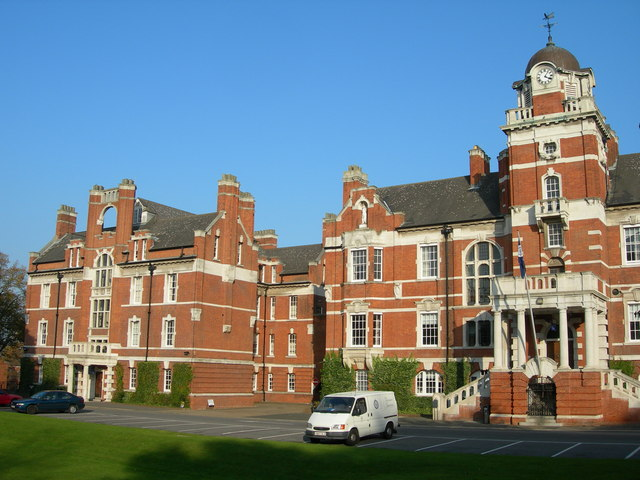 University of Greenwich, Pembroke. This was once part of the Royal Naval Barracks, HMS Pembroke. It is now part of the University of Greenwich. The building was completed around 1902.